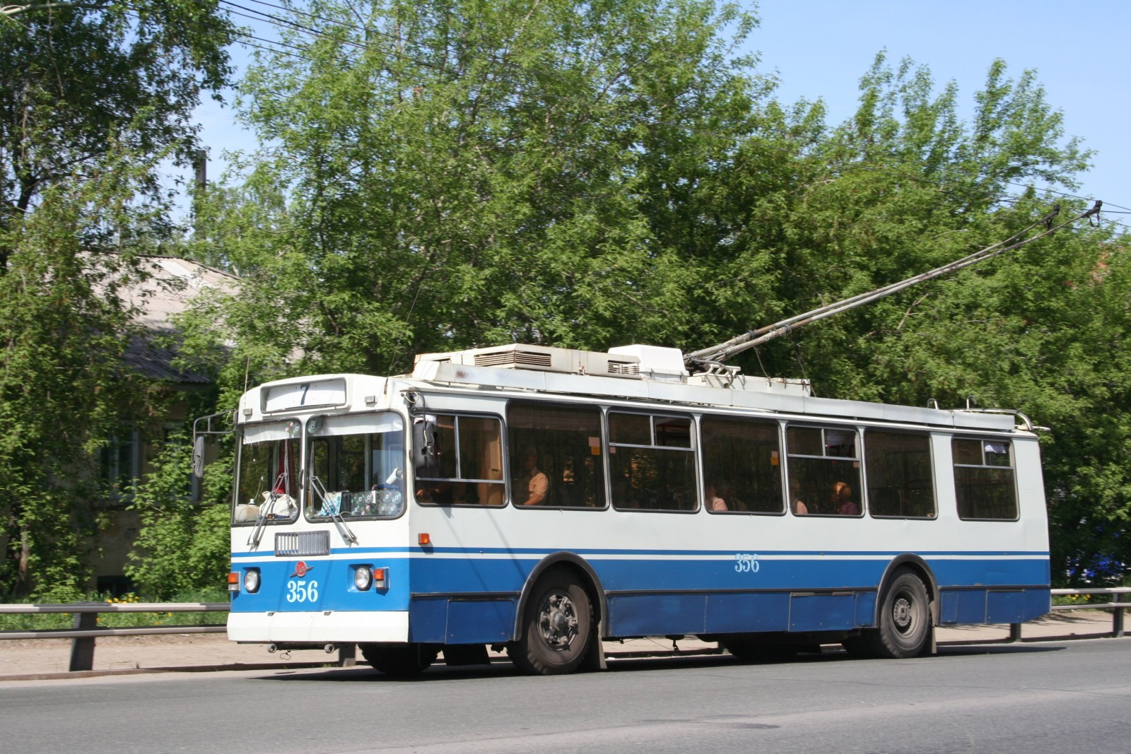 Tomsk trolleybus ZiU-682G No. 356. Irkutskij trakt